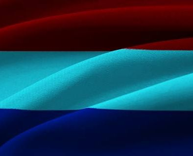 This photo bears the flag of St.Anthony's College